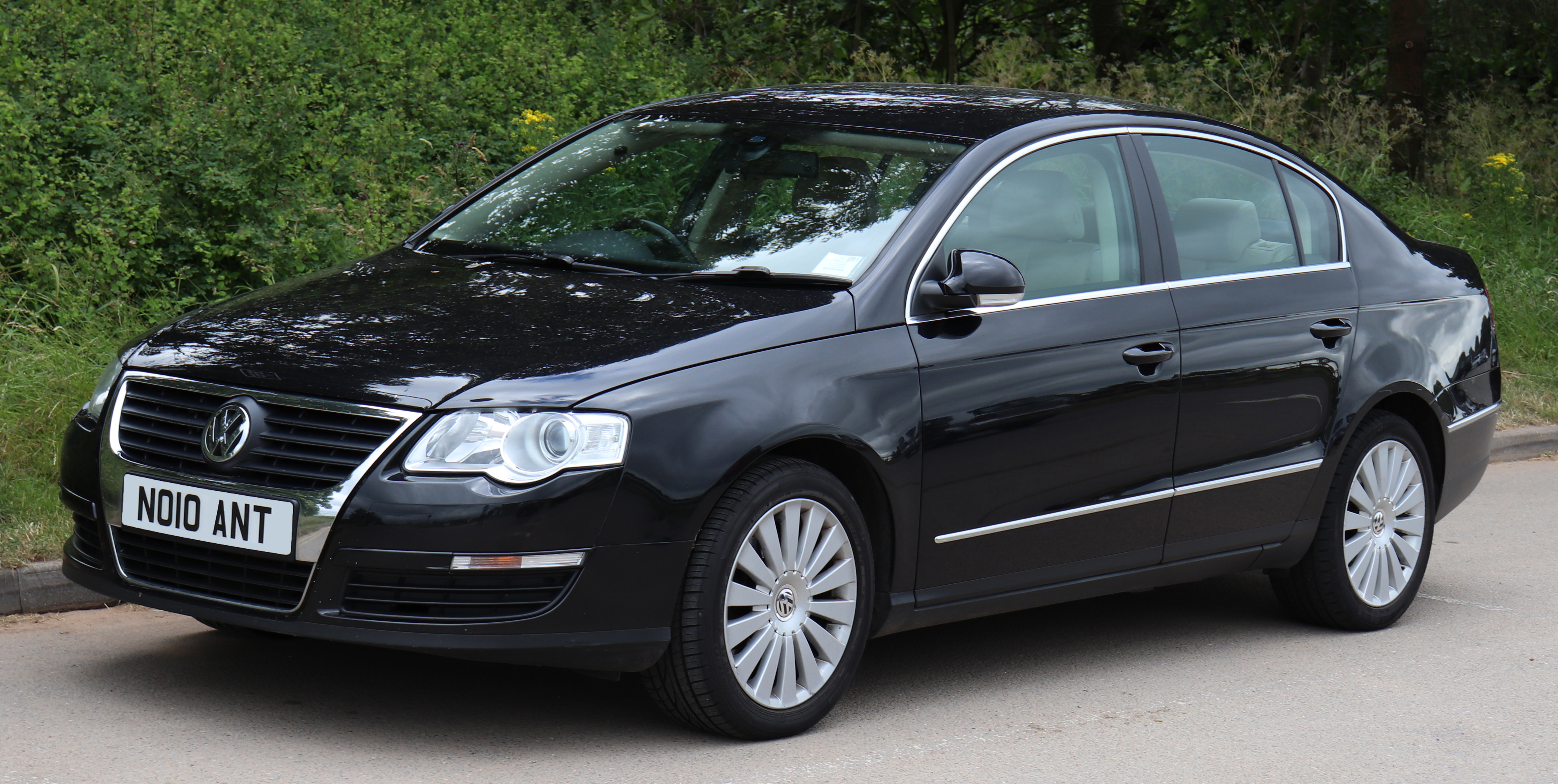 2010 Volkswagen Passat Highline TDi 140 2.0 Front Taken in Warwick